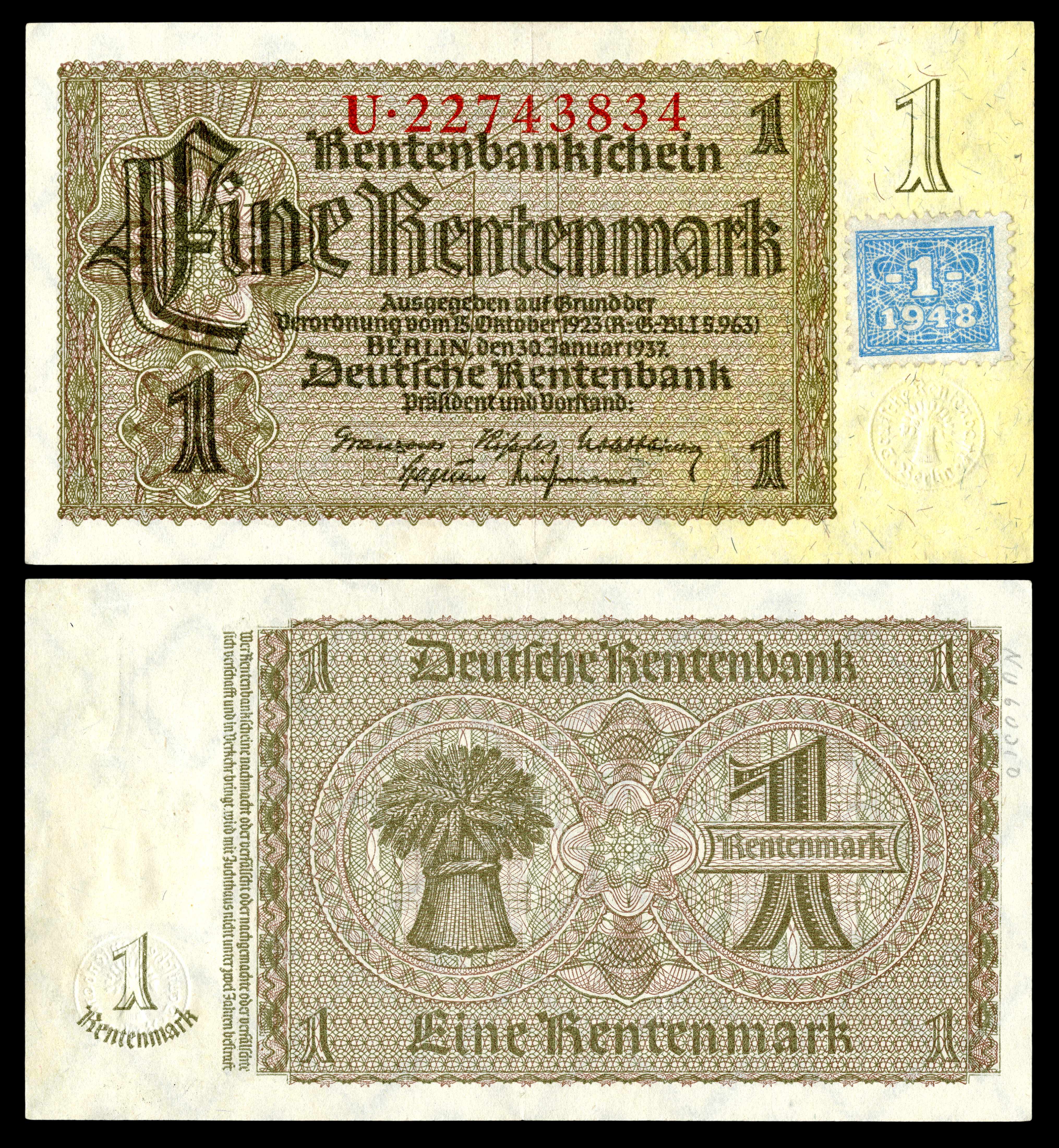 First variety of an East German Mark (1948) which circulated between late June and July of 1948. The base note is a 1937 Rentenmark with a validation coupon stamp affixed. Yellow security tint on right obverse.